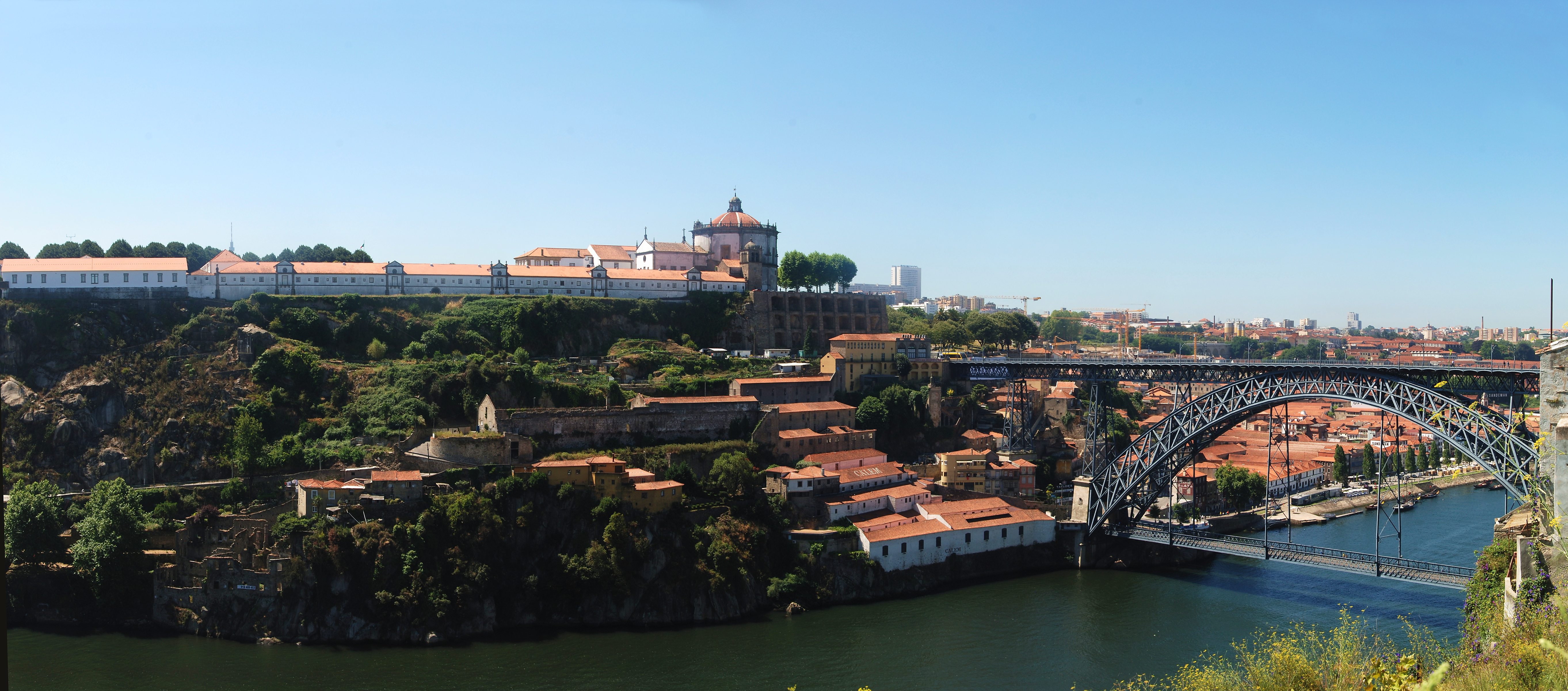 View of the River Douro and of D. Luís bridge. Porto, Portugal